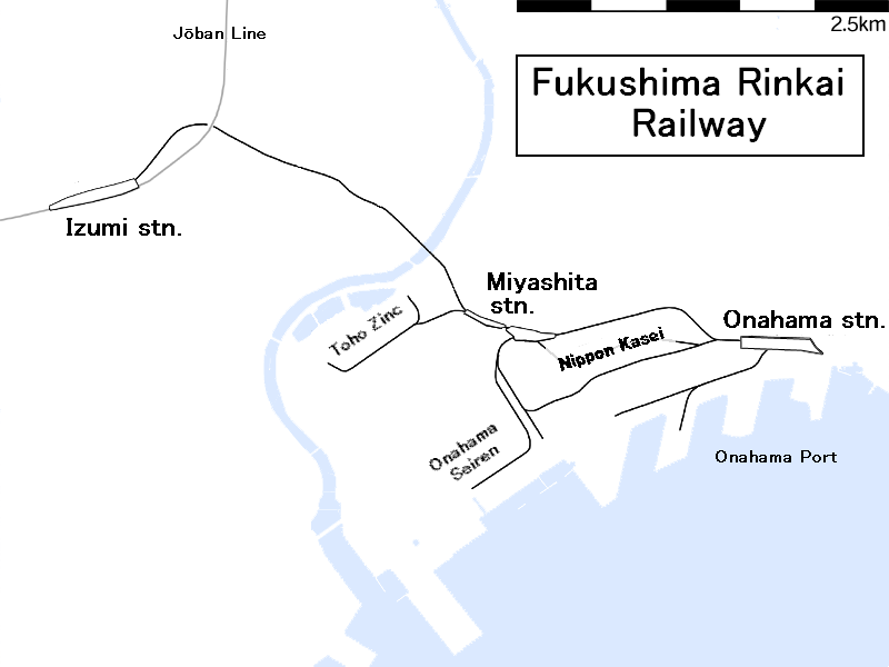 linemap of Fukushima Rinkai Railway Main Line